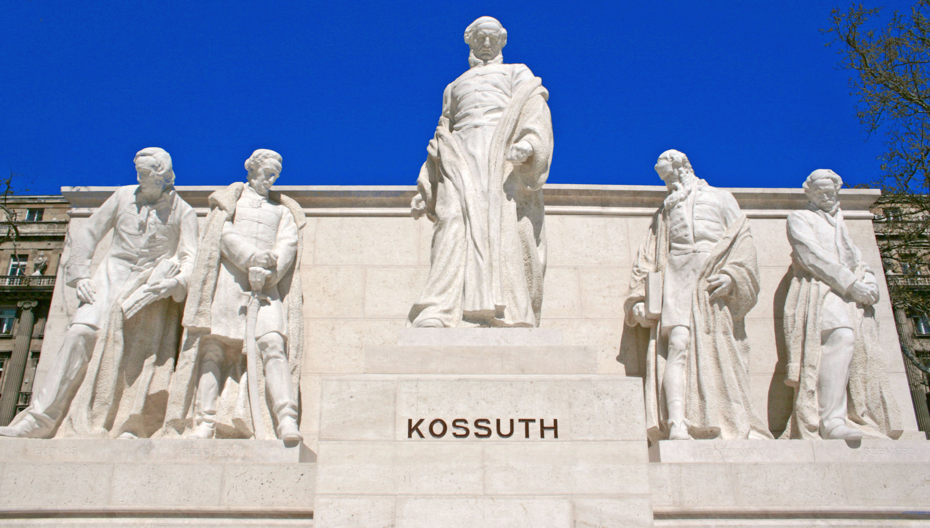 Hungary, Budapest, Kossuth statue - Kossuth square - Communist era, the statue is removed, and the statue was destroyed. Sculpture Group was re-carved and inaugurated March 3, 2015